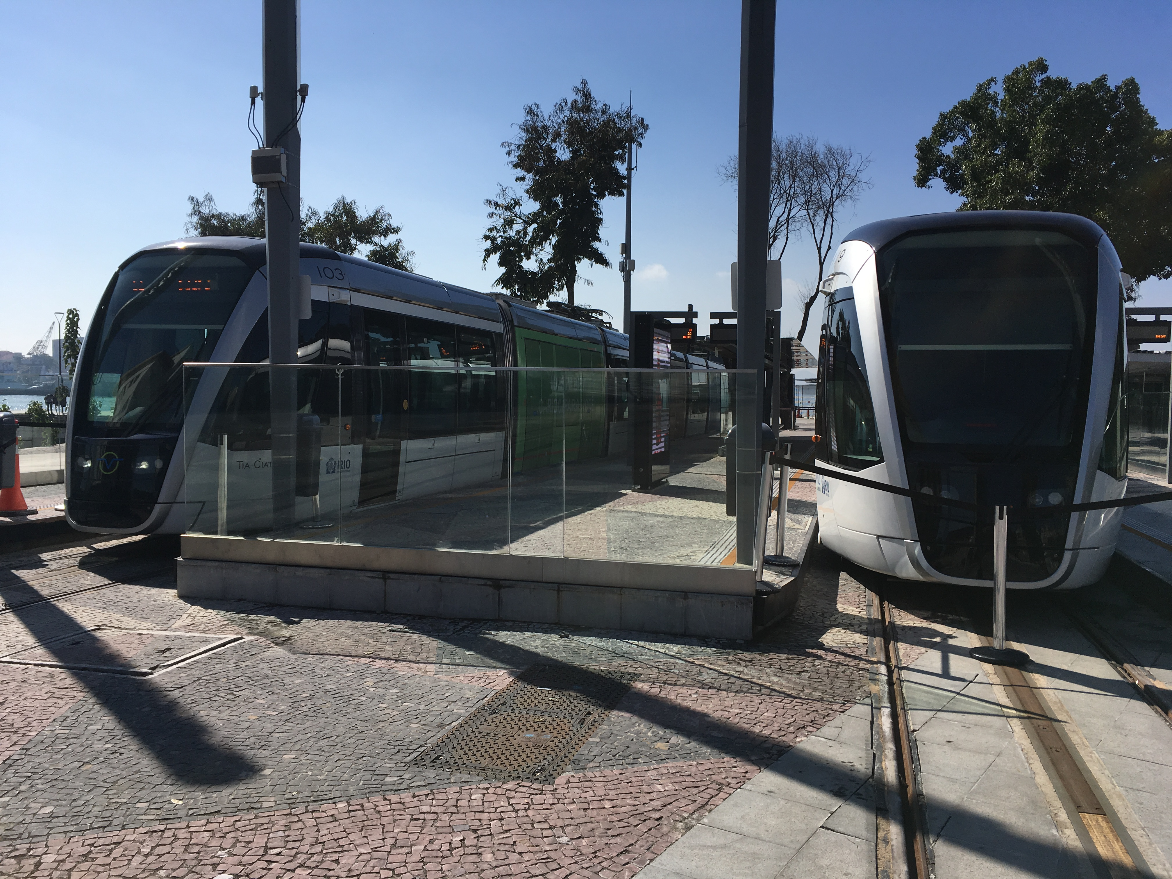 Rio de Janeiro LRT, Praça XV station.